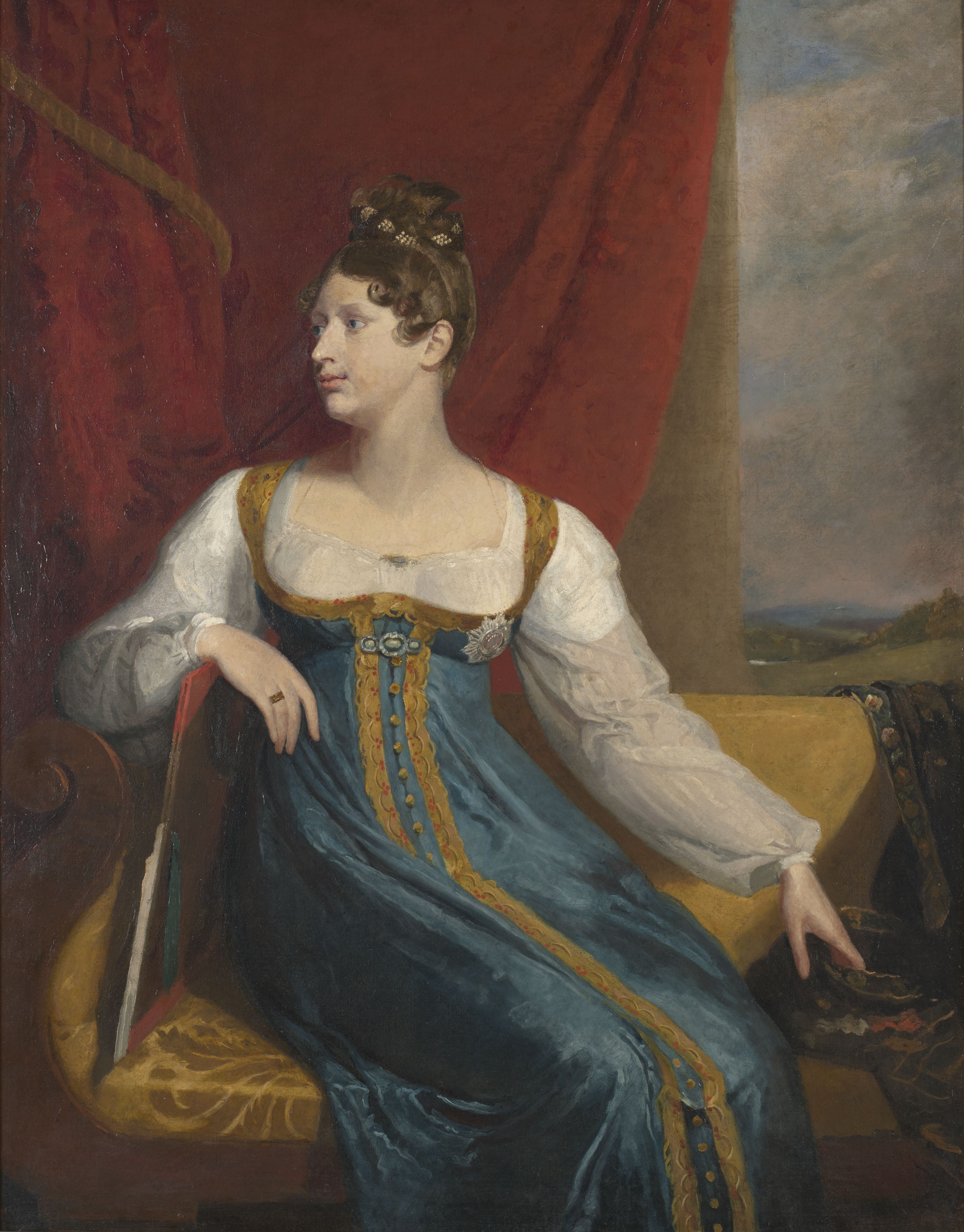 Princess Charlotte Augusta of Wales (1796–1817), daughter of king George IV of the United Kingdom and Hanover, by marriage princess of Saxe-Coburg-Saalfeld.